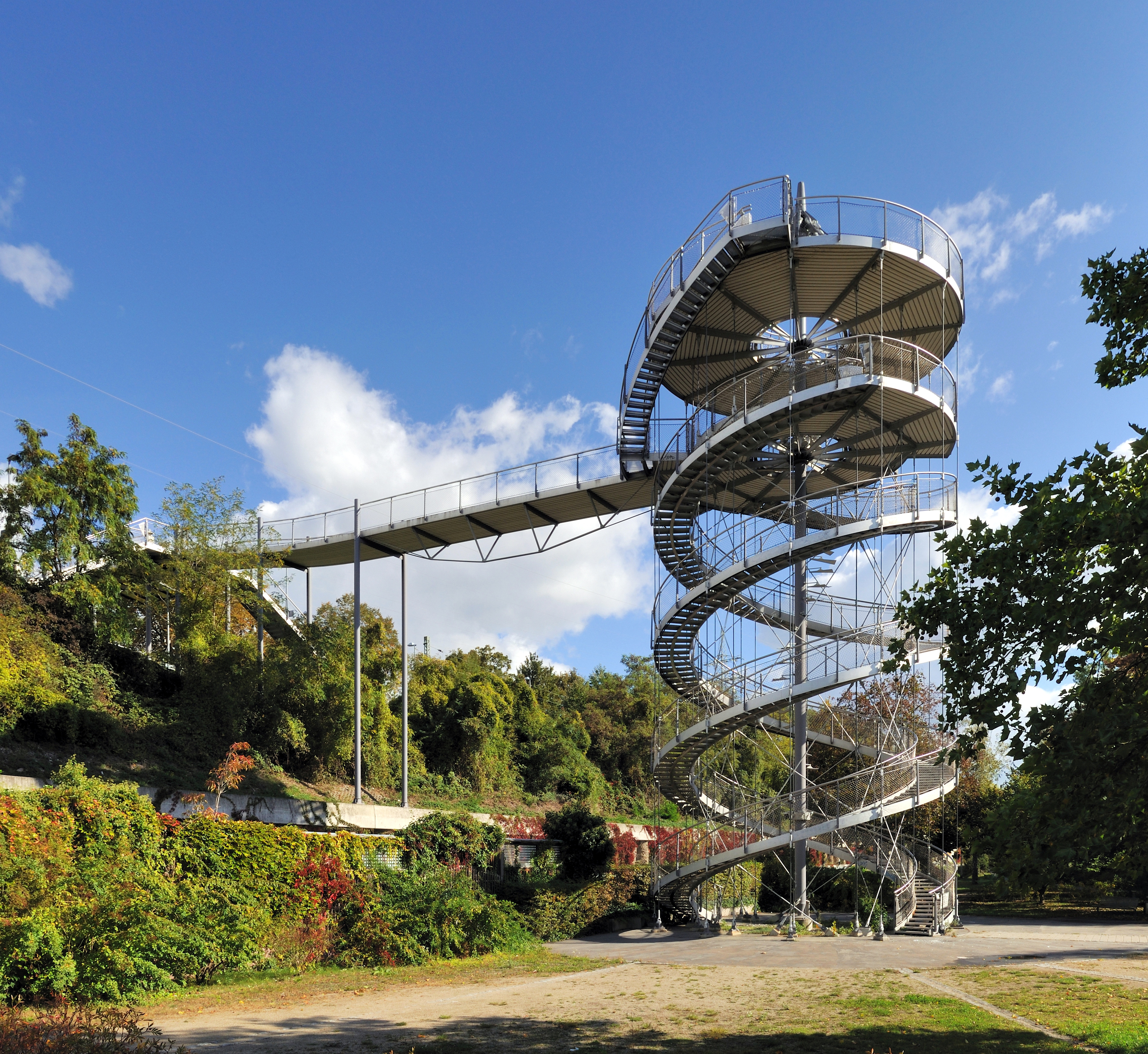 Weil am Rhein: Schlaich tower and pedestrian bridge